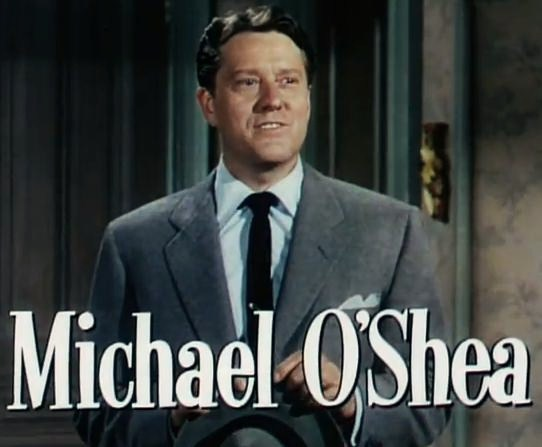 Michael O'Shea in Bloodhounds of Broadway - trailer (cropped screenshot)